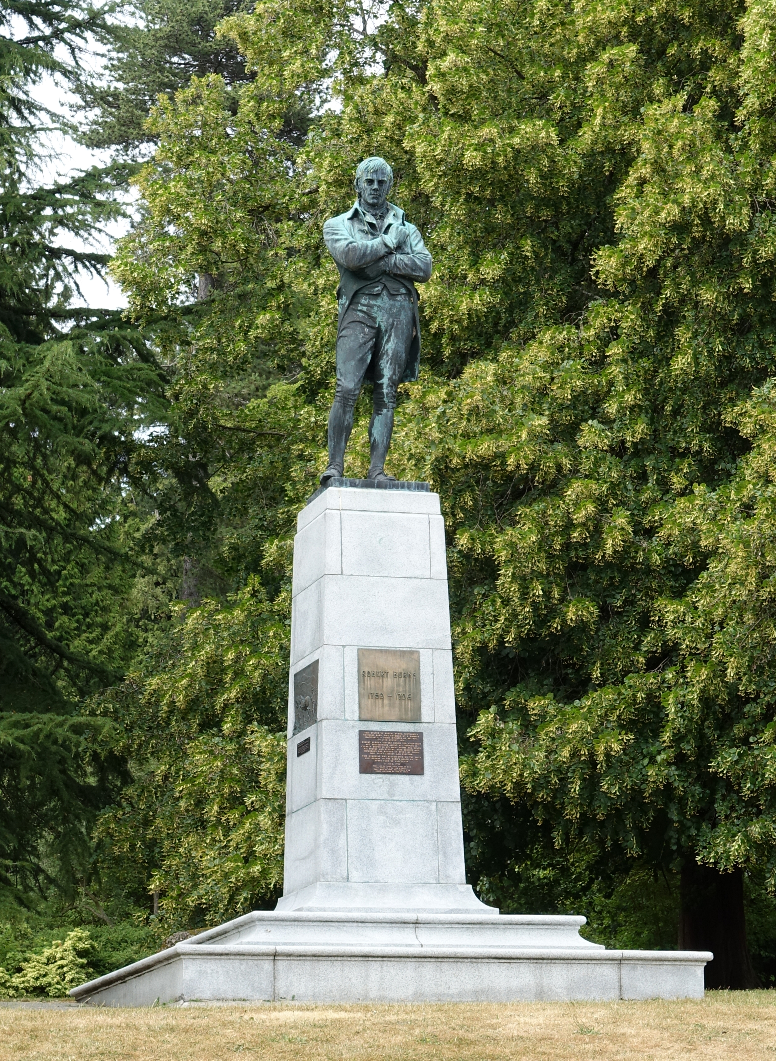 Robert Burns Memorial - Stanley Park, Vancouver, Canada. Sculptor: George Anderson Lawson (1832-1904). This artwork is in the public domain because the artist died more than 100 years ago.